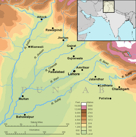 illustrating the Punjab region